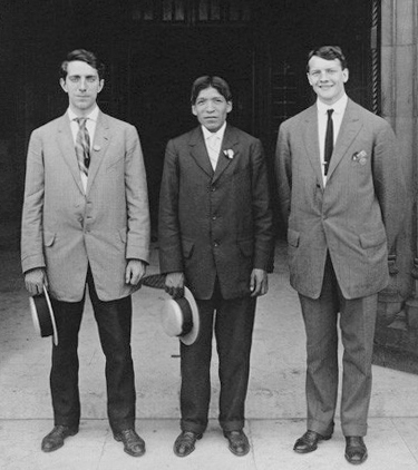 John Cullinan